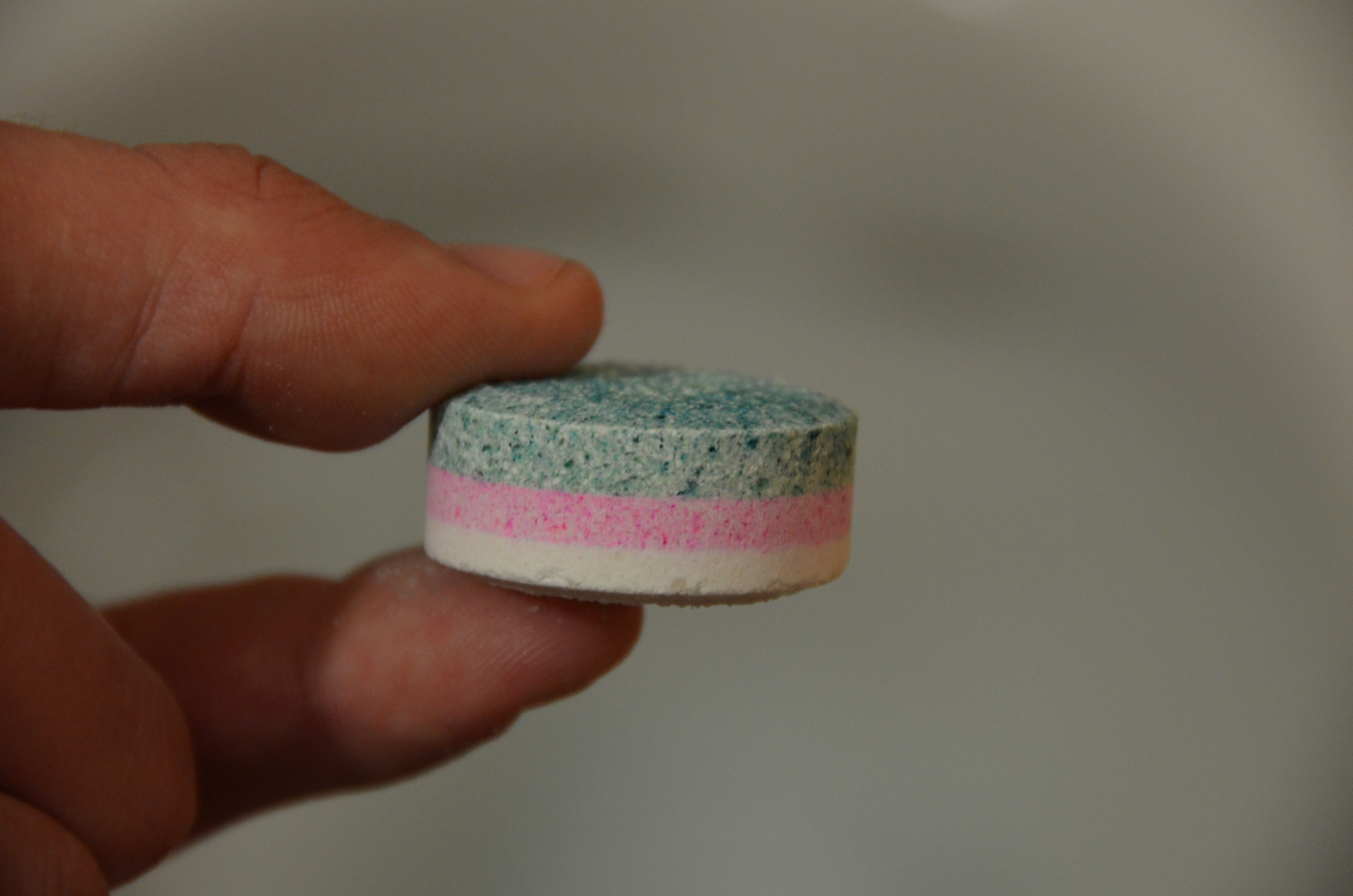 Toilet cleaner